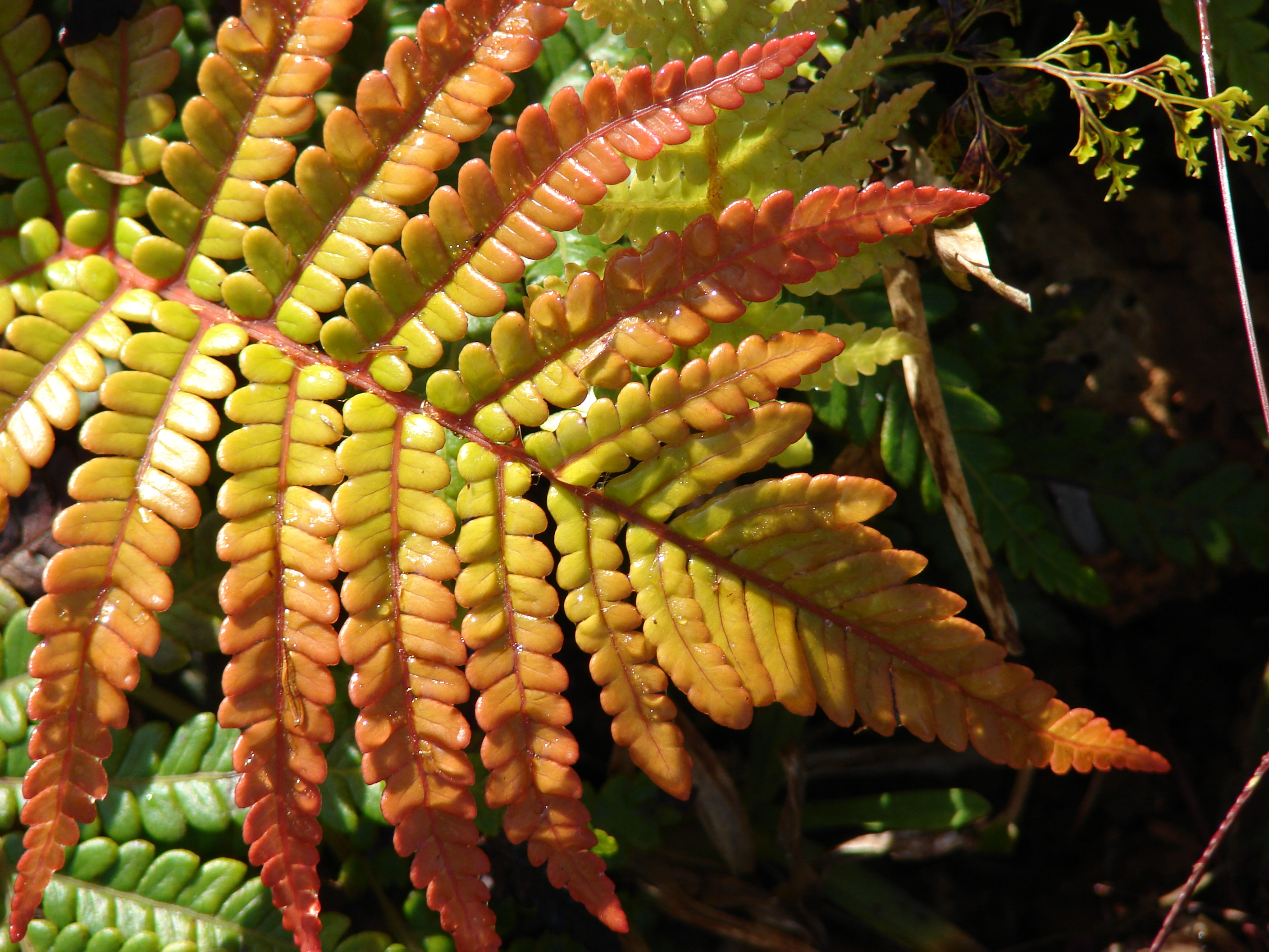 Sadleria pallida (frond). Location: Lanai, Munro Trail